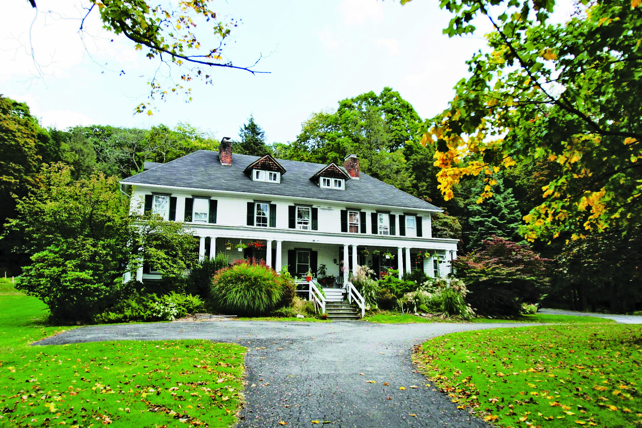 Spy Rock - one of six campus residences which houses students at The Storm King school.